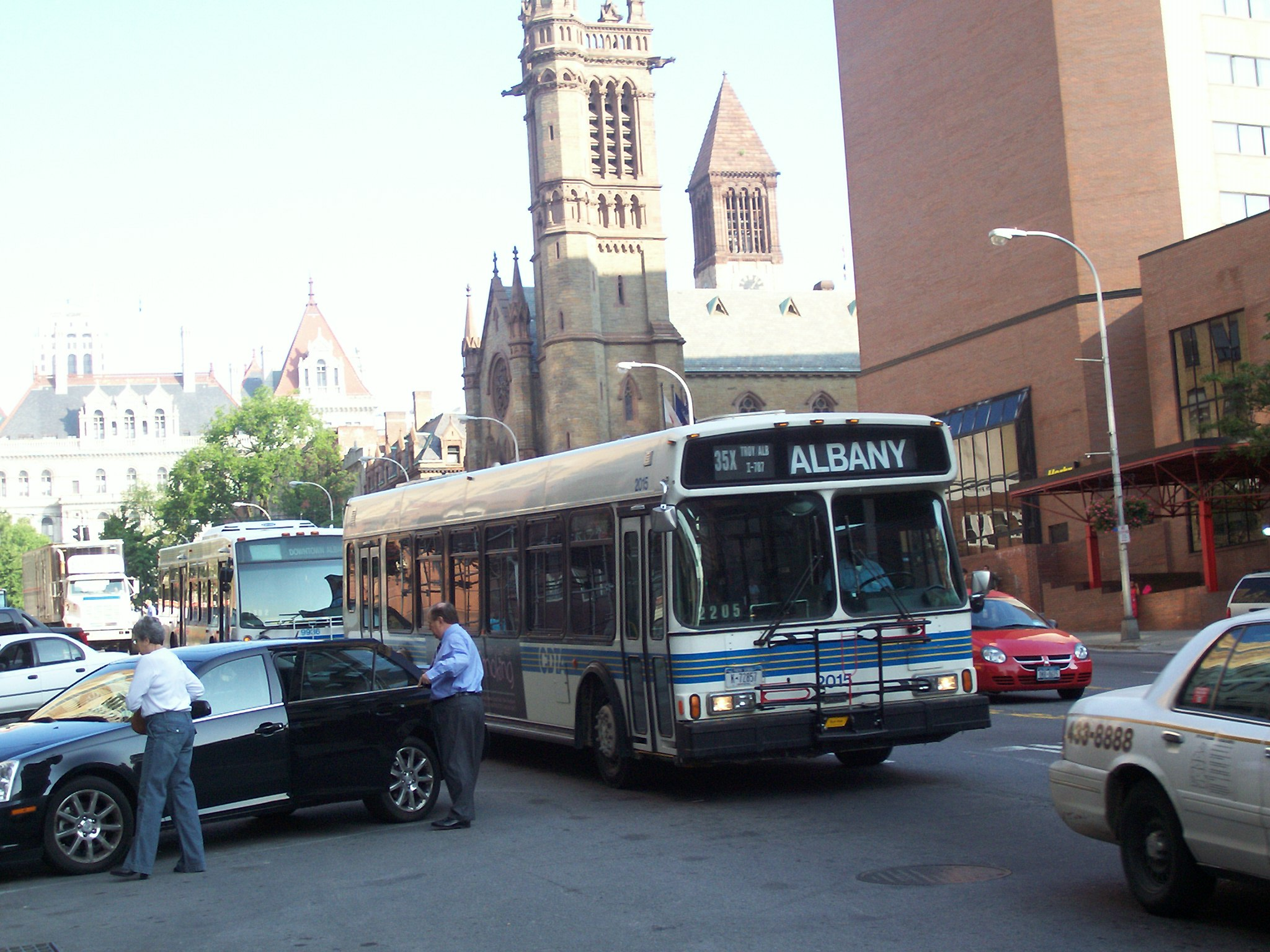 CDTA Orion VI in its original scheme, State and Lodge Streets, Albany NY, July 2006.